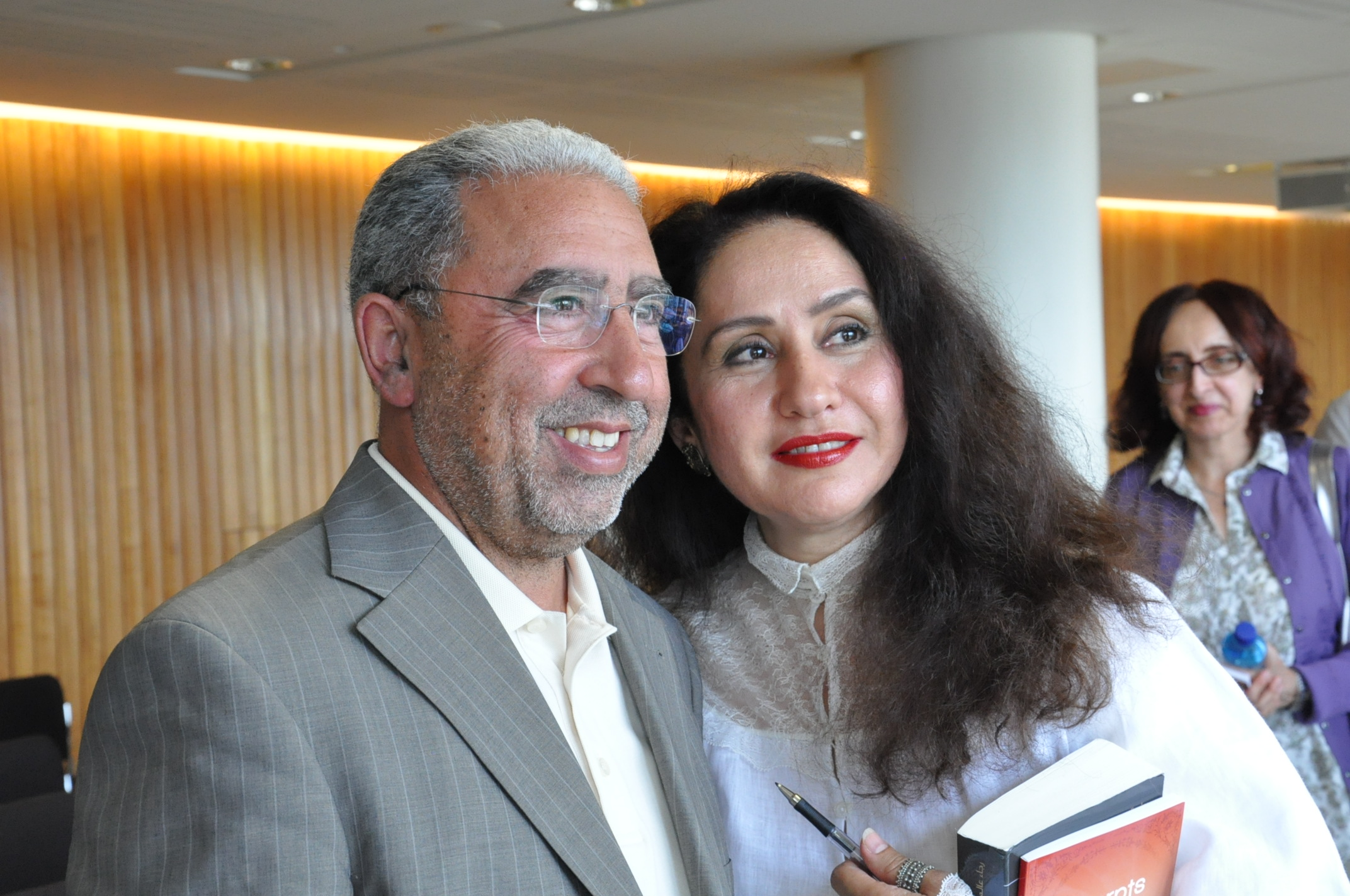 Mohammed Achaari and Rajaa Alem, joint winners of the 2011 Arabic Booker Prize, at the London Literature Festival, July 2011